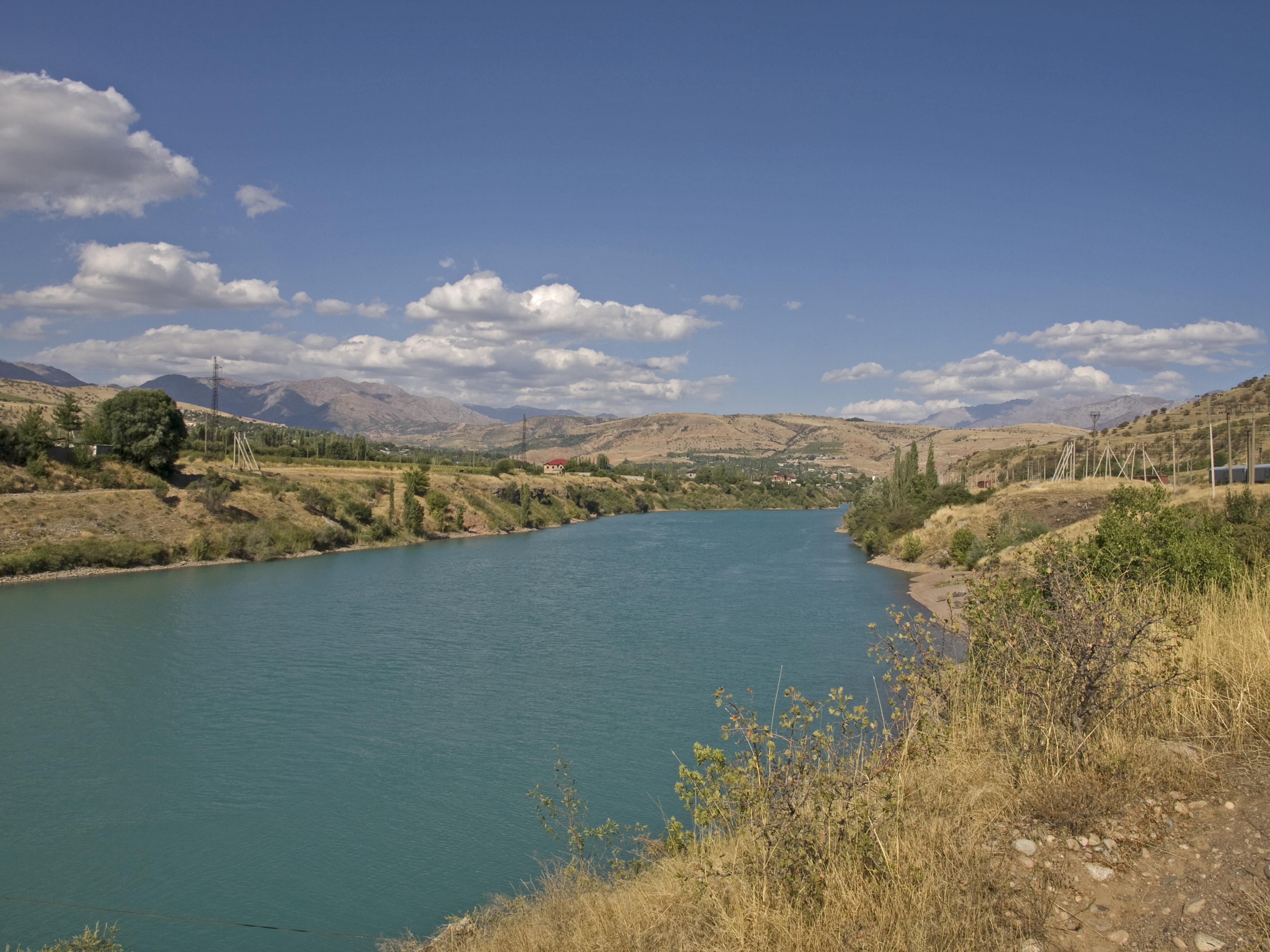 Chirchik River in Khodzhikent, next to the railway station